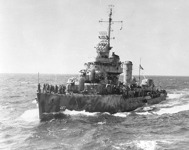 USS Aaron Ward (DD-483) approaching USS Wasp (CV-7) on 17 August 1942, during operations in the Solomon Islands area. Note that her port anchor is missing, probably removed as a weight-saving measure. Also note her pattern camouflage.